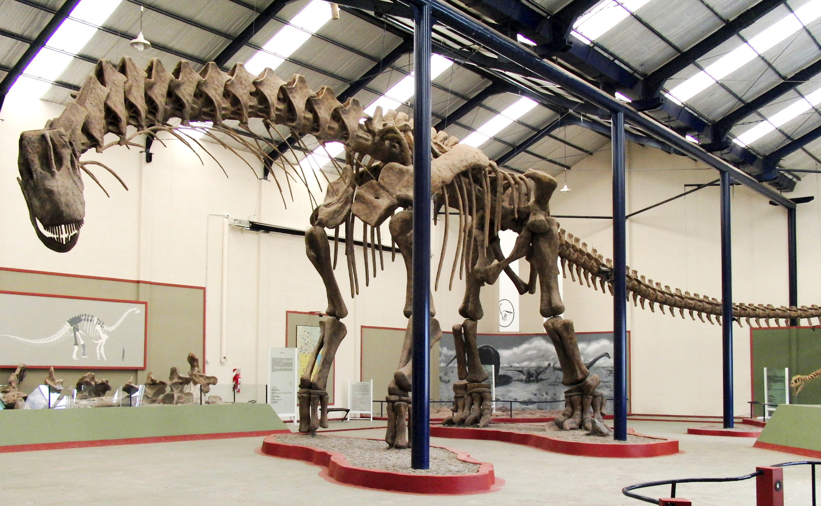 Argentinosaurus huinculensis reconstruction at Museo Municipal Carmen Funes, Plaza Huincul, Neuquén, Argentina.